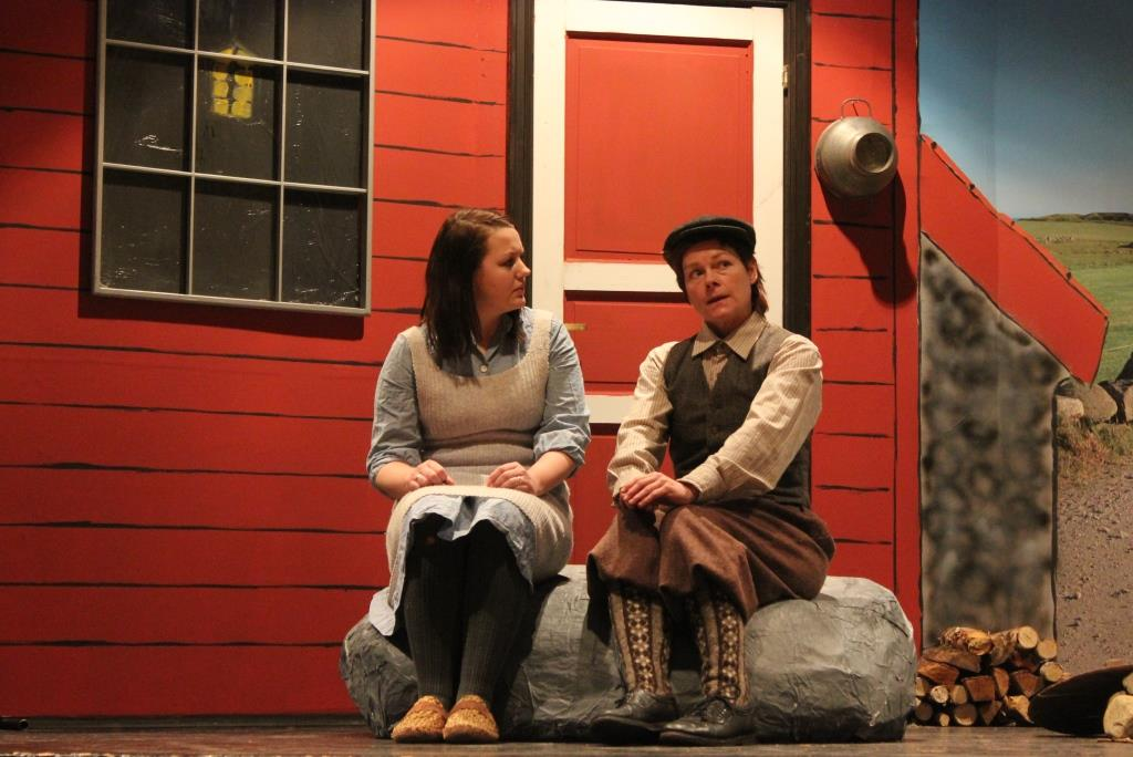 "Rasjonelt fjøsstell" sett opp av Undheim Revyteater under Garborgdagar i 2013.